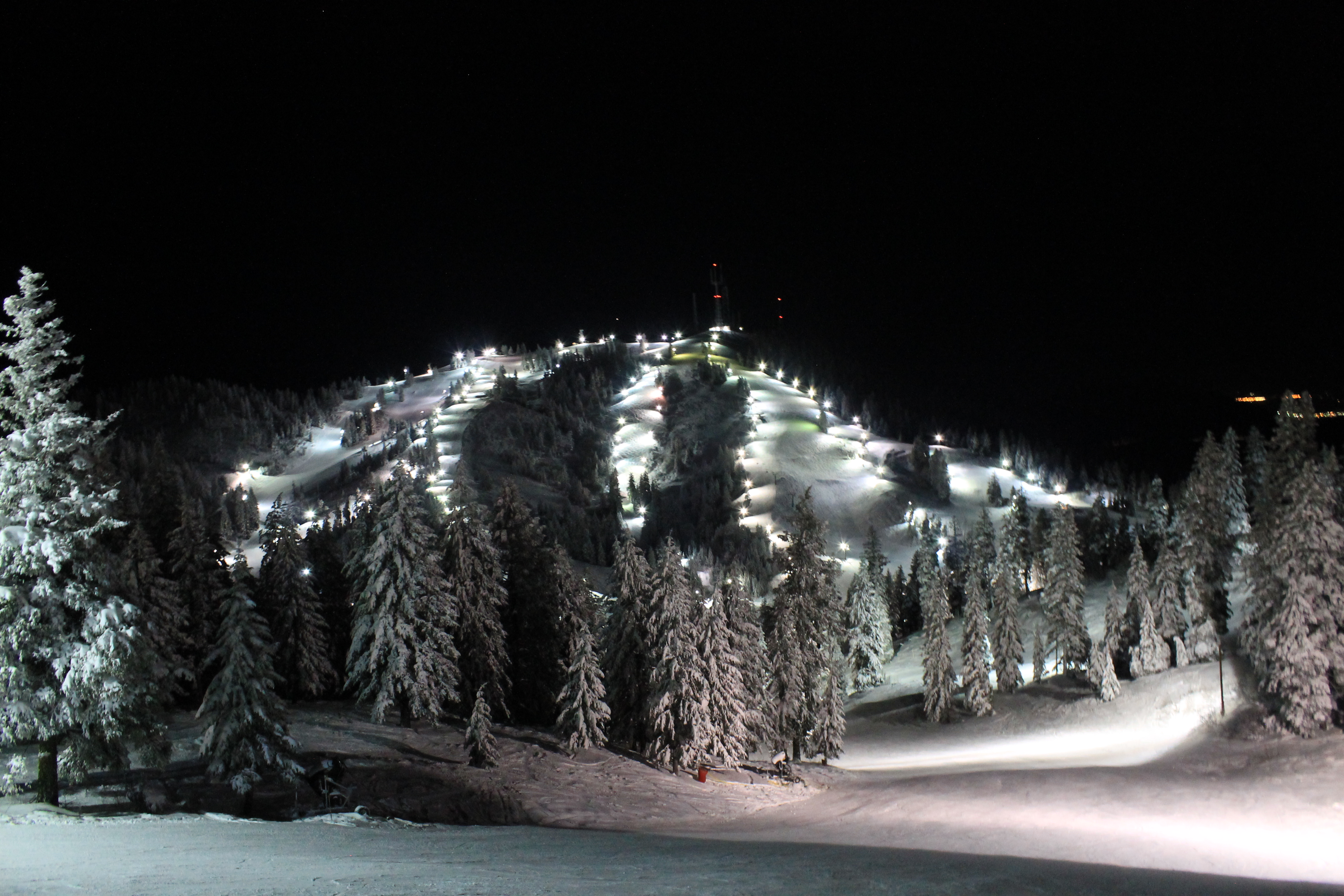 This is Bogus Basin during night-skiing hours, February, 2019.